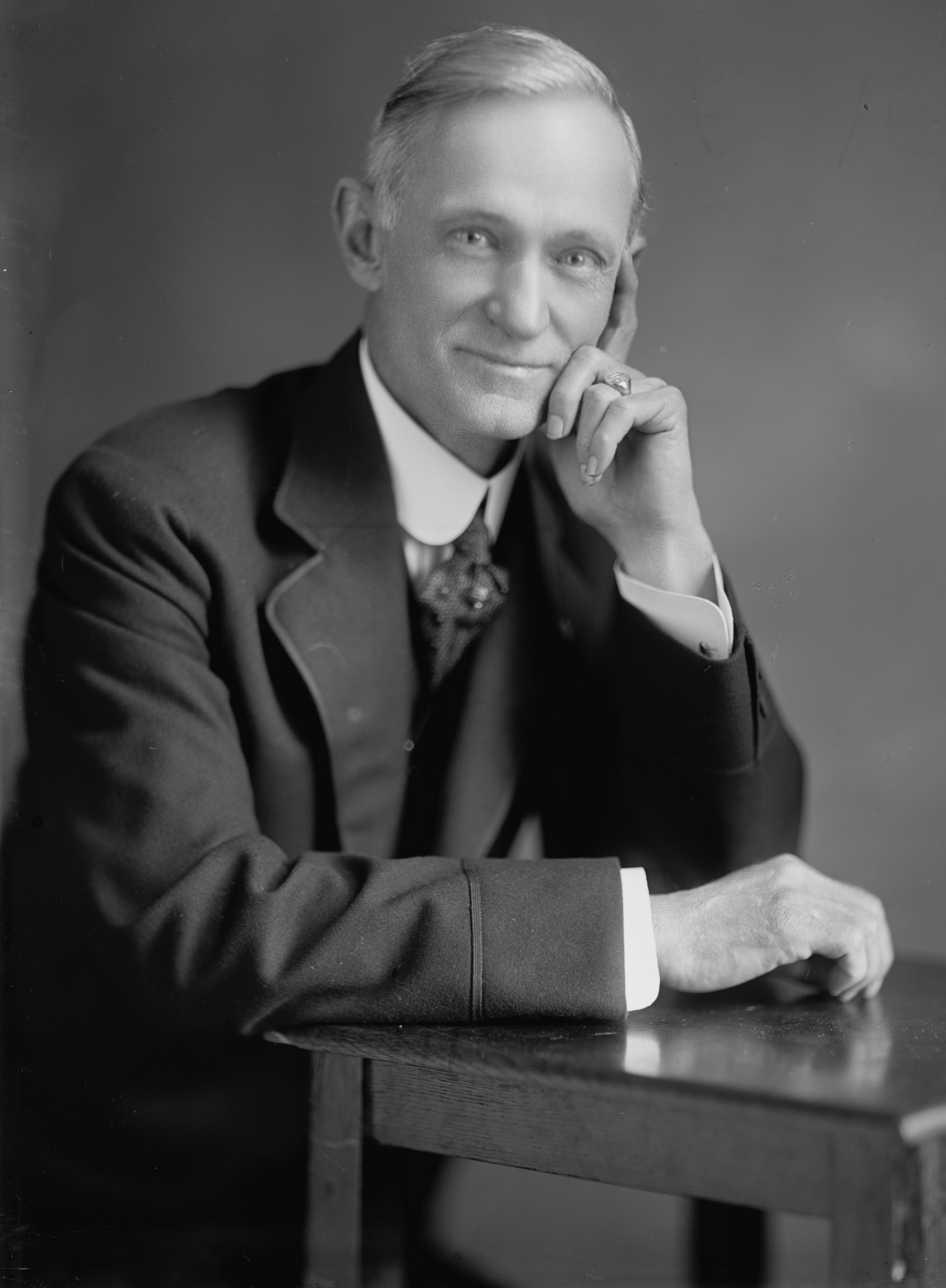 Ezekiel S. Candler, US Representative from Mississippi